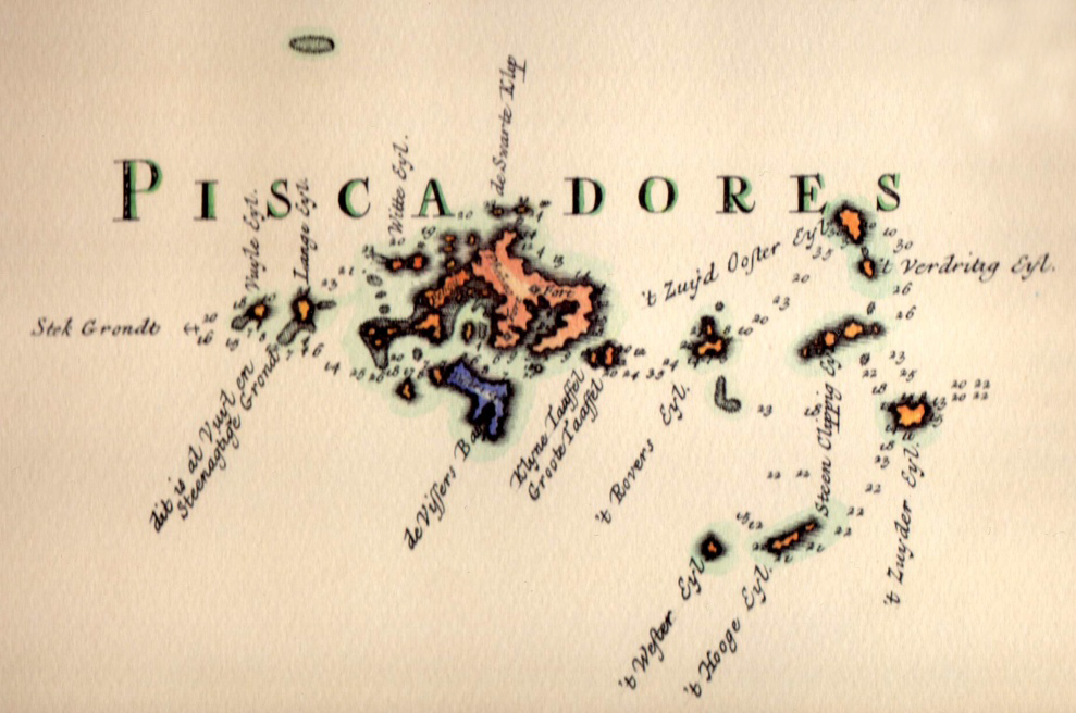 Map of the "Piscadores" (Pescadores, today known as Penghu), cropped from a larger eighteenth century map of Taiwan. North is to the left.